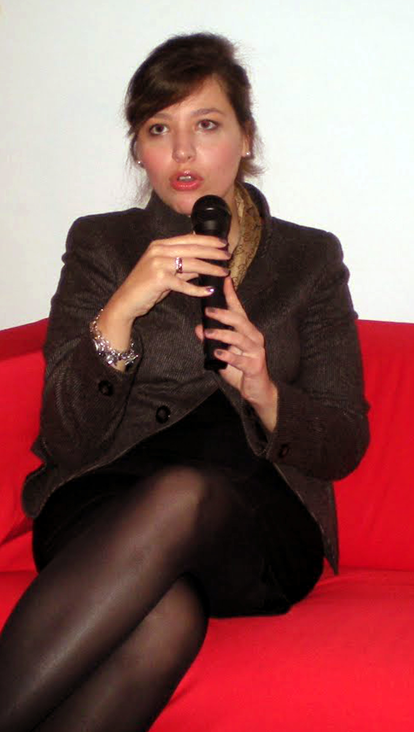 Italian writer Alessia Gazzola